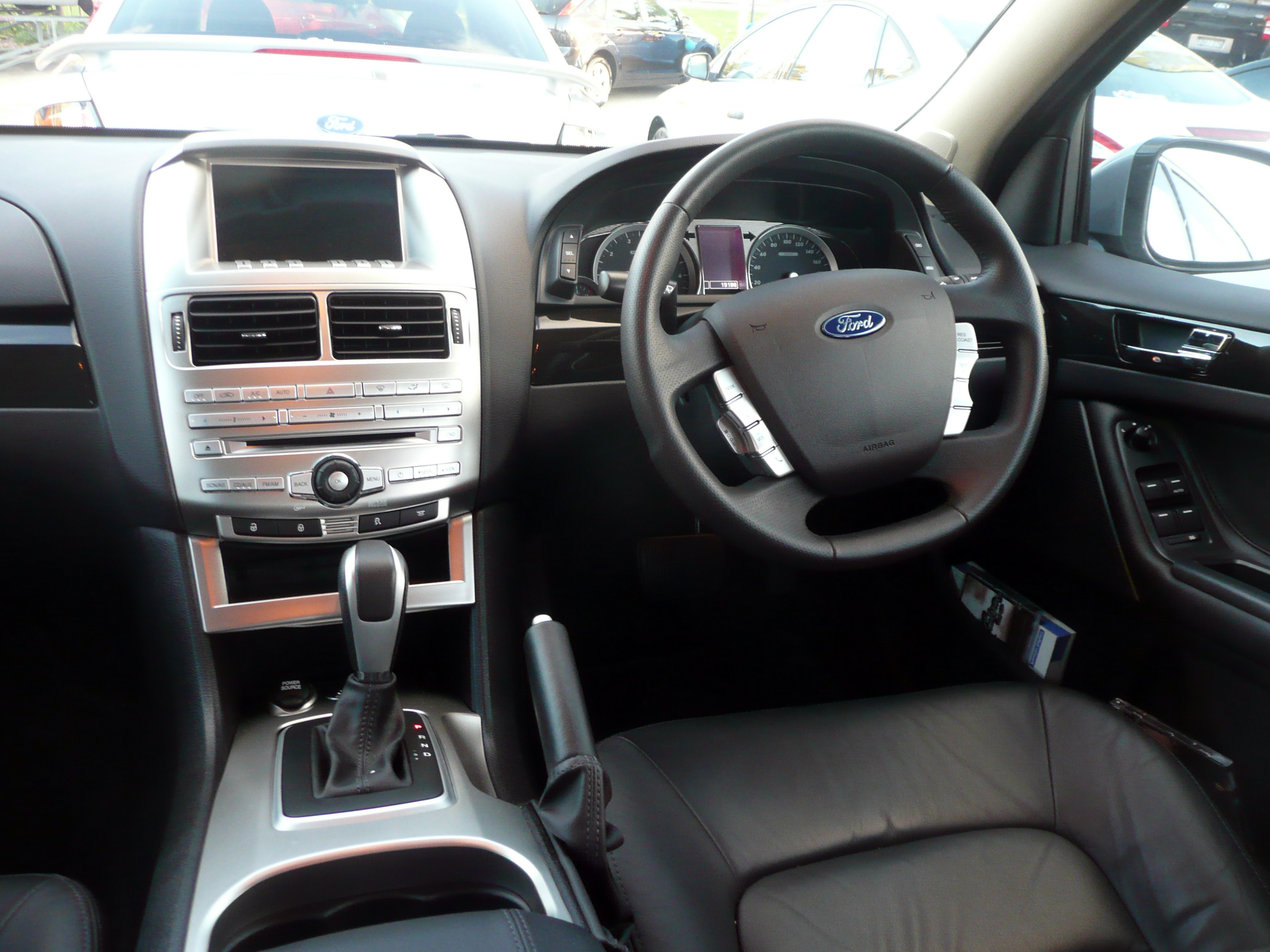 2008–2009 Ford G6E (FG) sedan. Photographed at Dominelli Ford, Kirrawee, New South Wales, Australia.